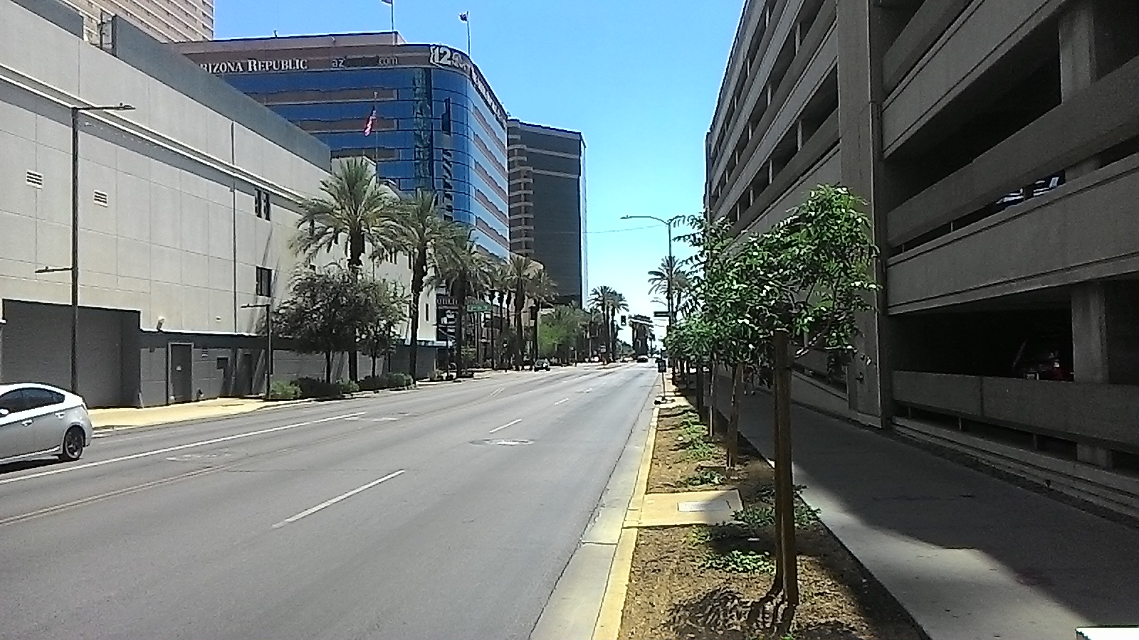 Van Buren Street, Phoenix, Arizona near intersection of 2nd st facing East